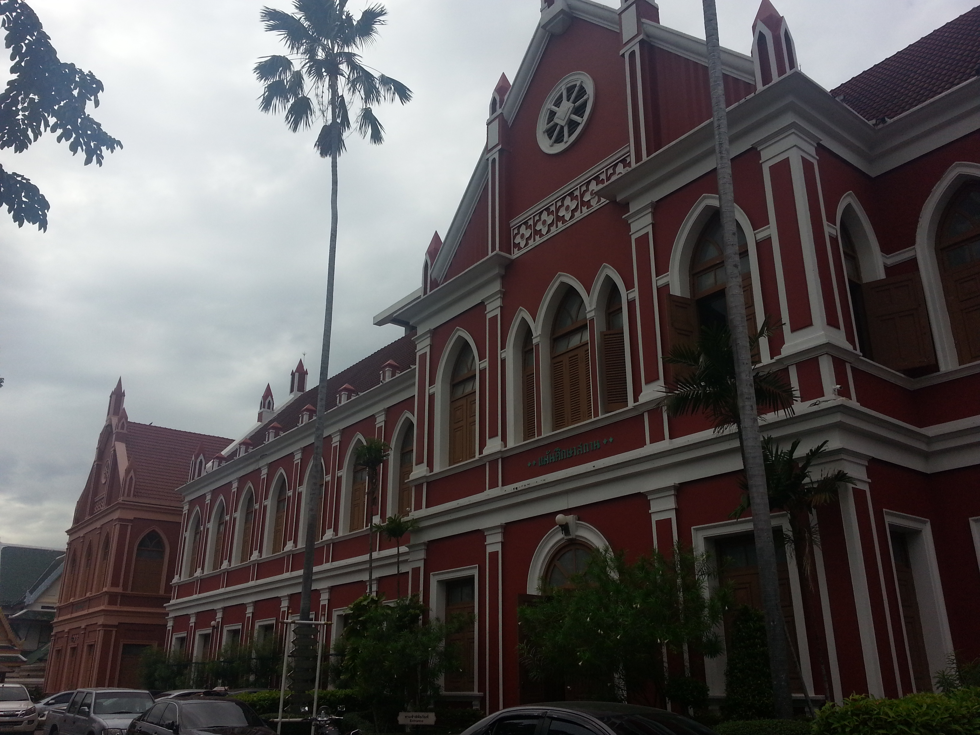 Debsirin School in 2016 Photo taken by me I'M shoot wiith Galaxy Note 2